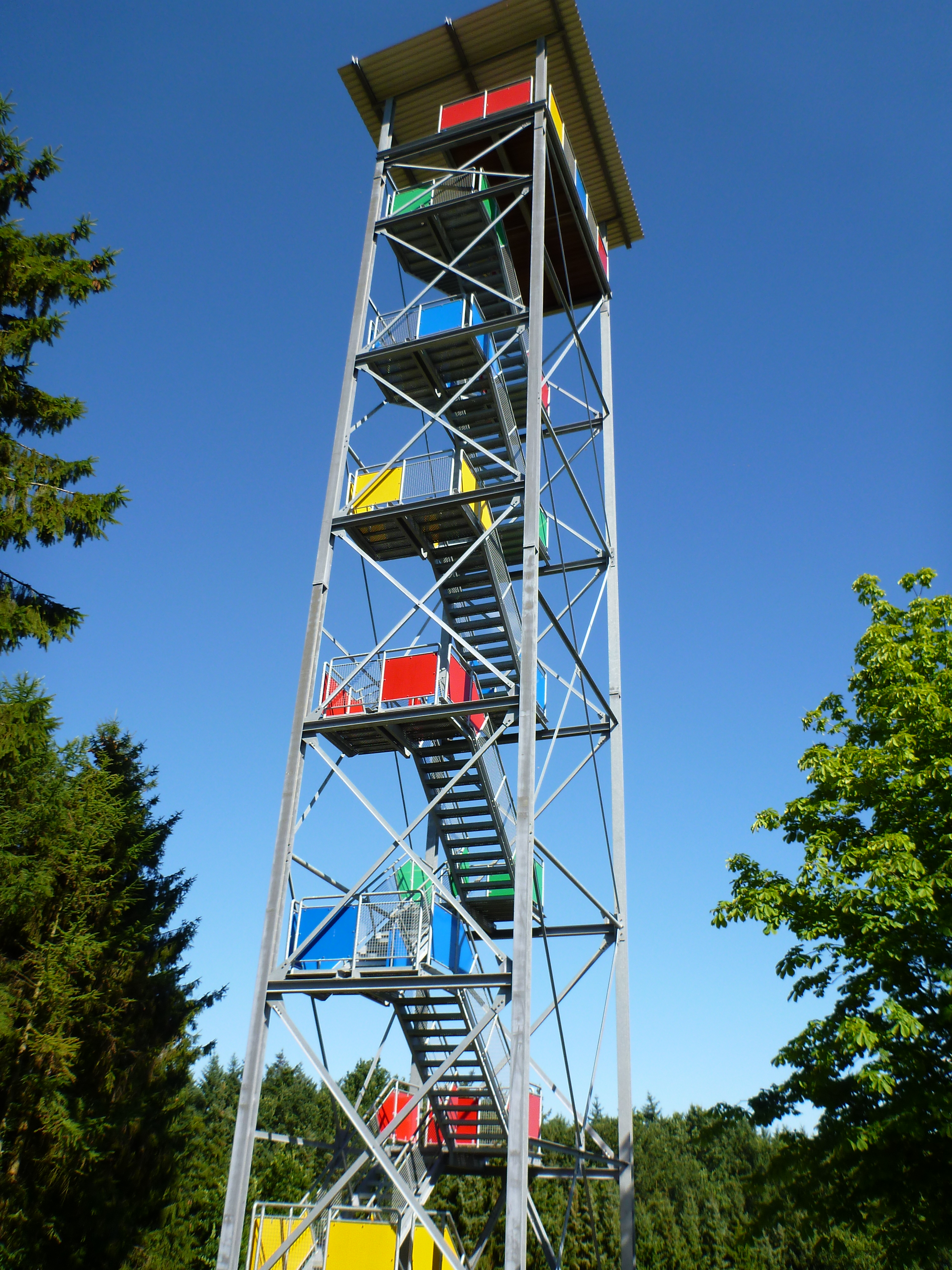 Watch tower in Nottensdorf